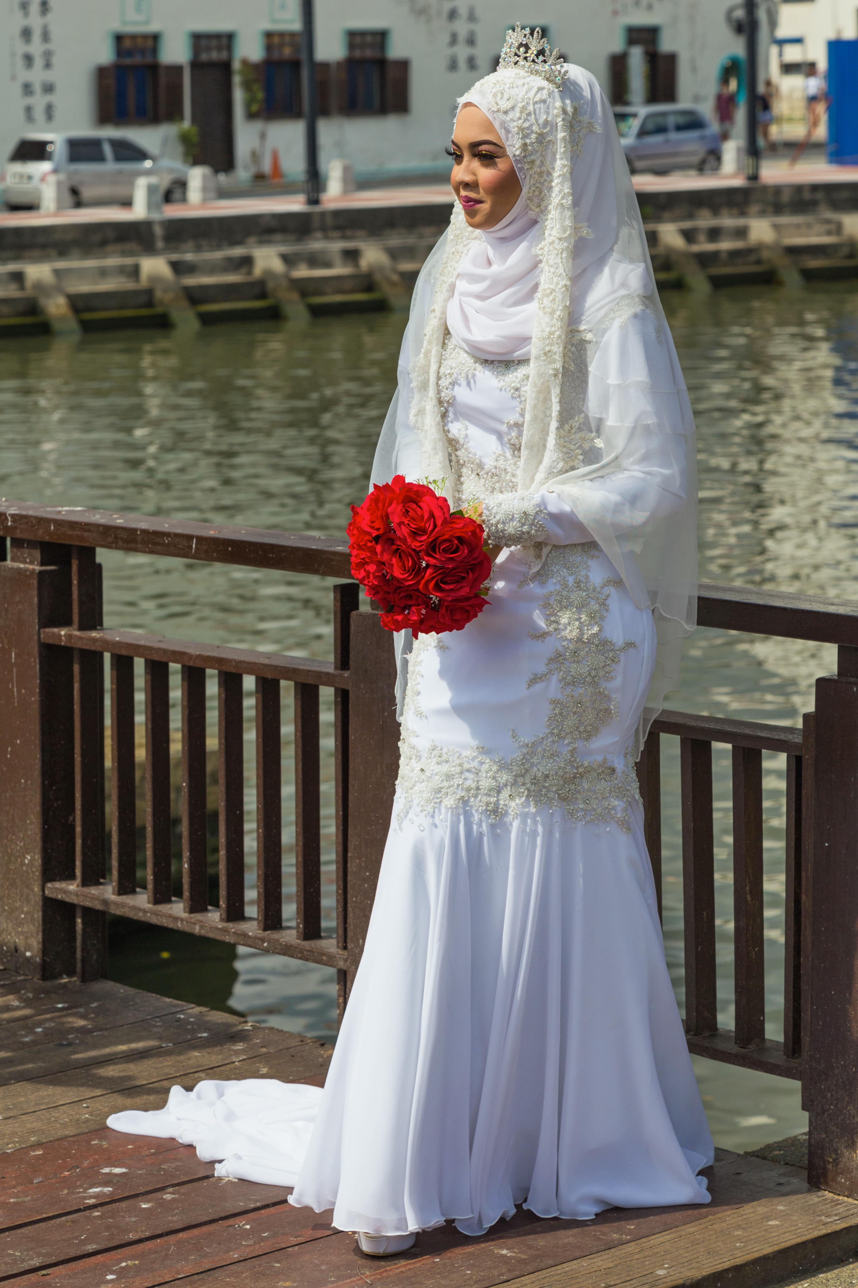 Malay bride. Malacca City, Malacca, Malaysia.